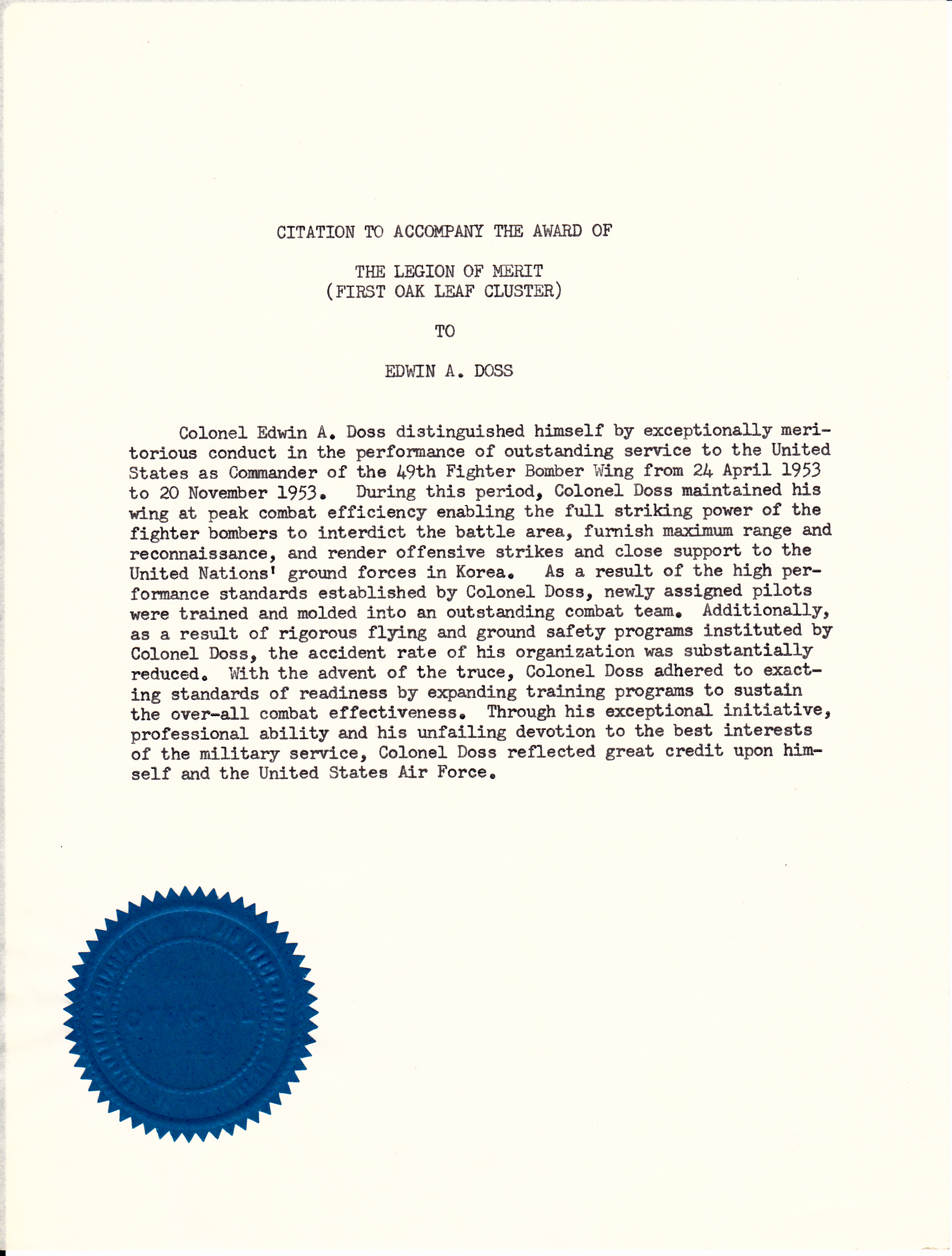 Edwin A. Doss Legion of Merit Citation